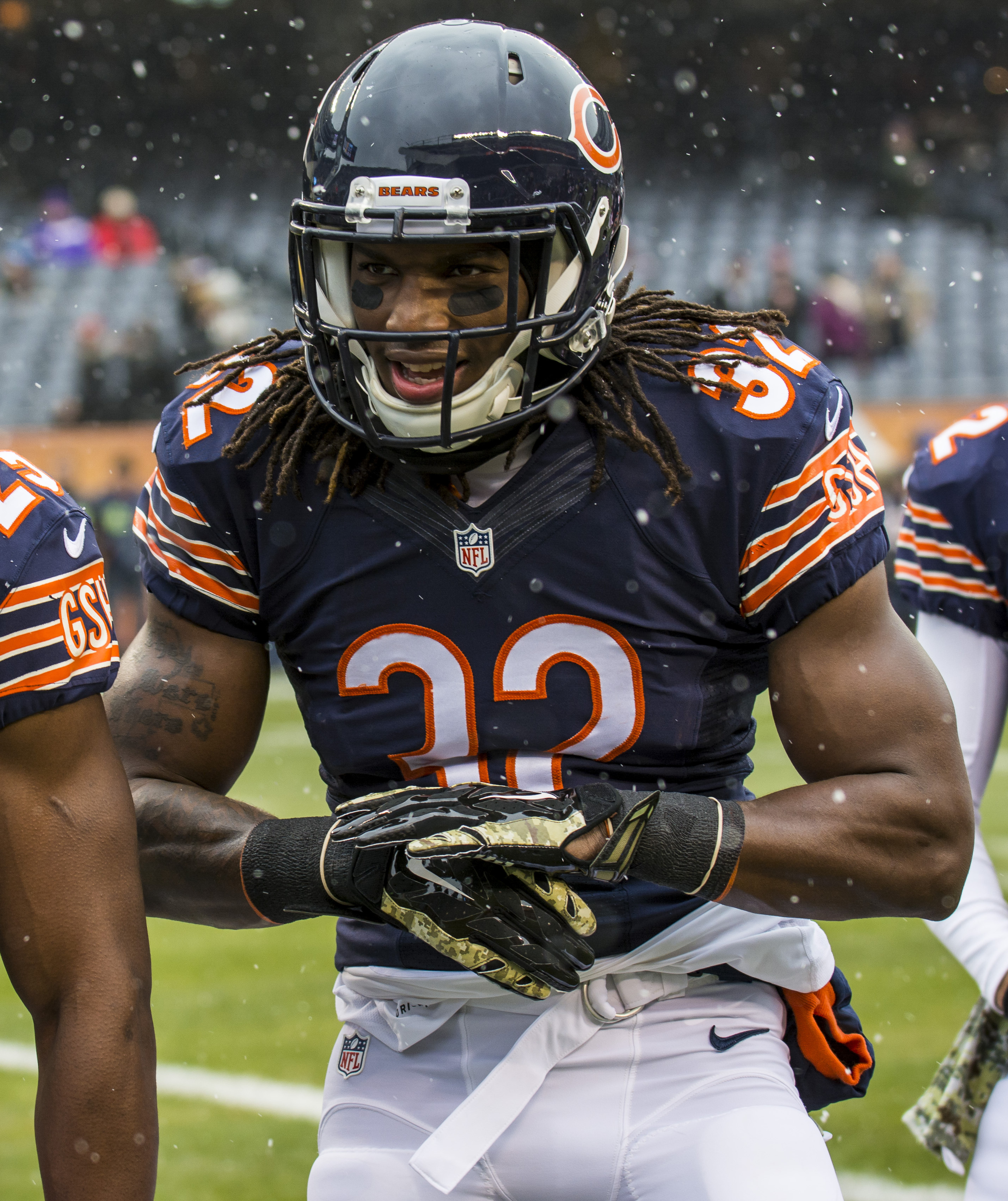 Chicago Bears running back, Senorise Perry, in a game against the Minnesota Vikings on November 16, 2014.